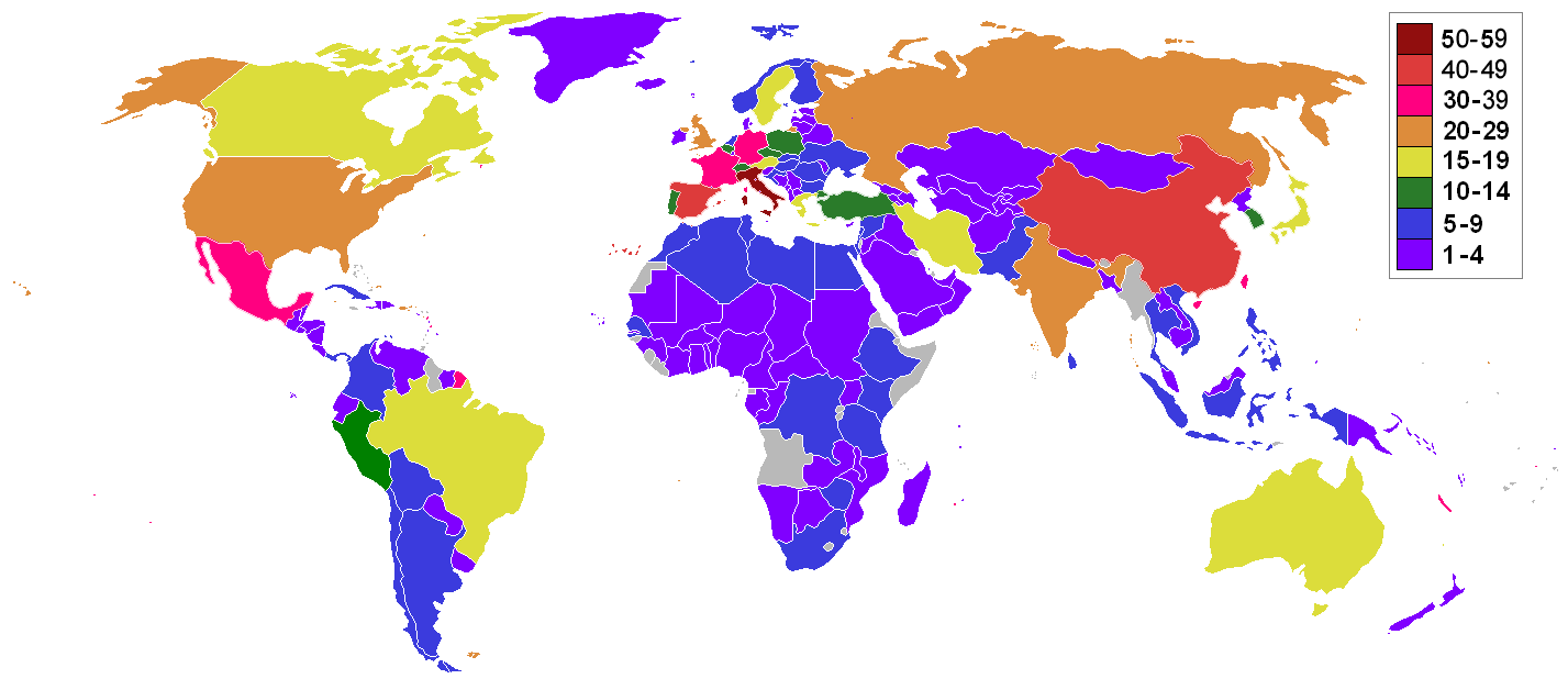 created by Joey80